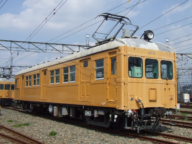 Series 2000-No.2019-,Sagami Railway,Japan